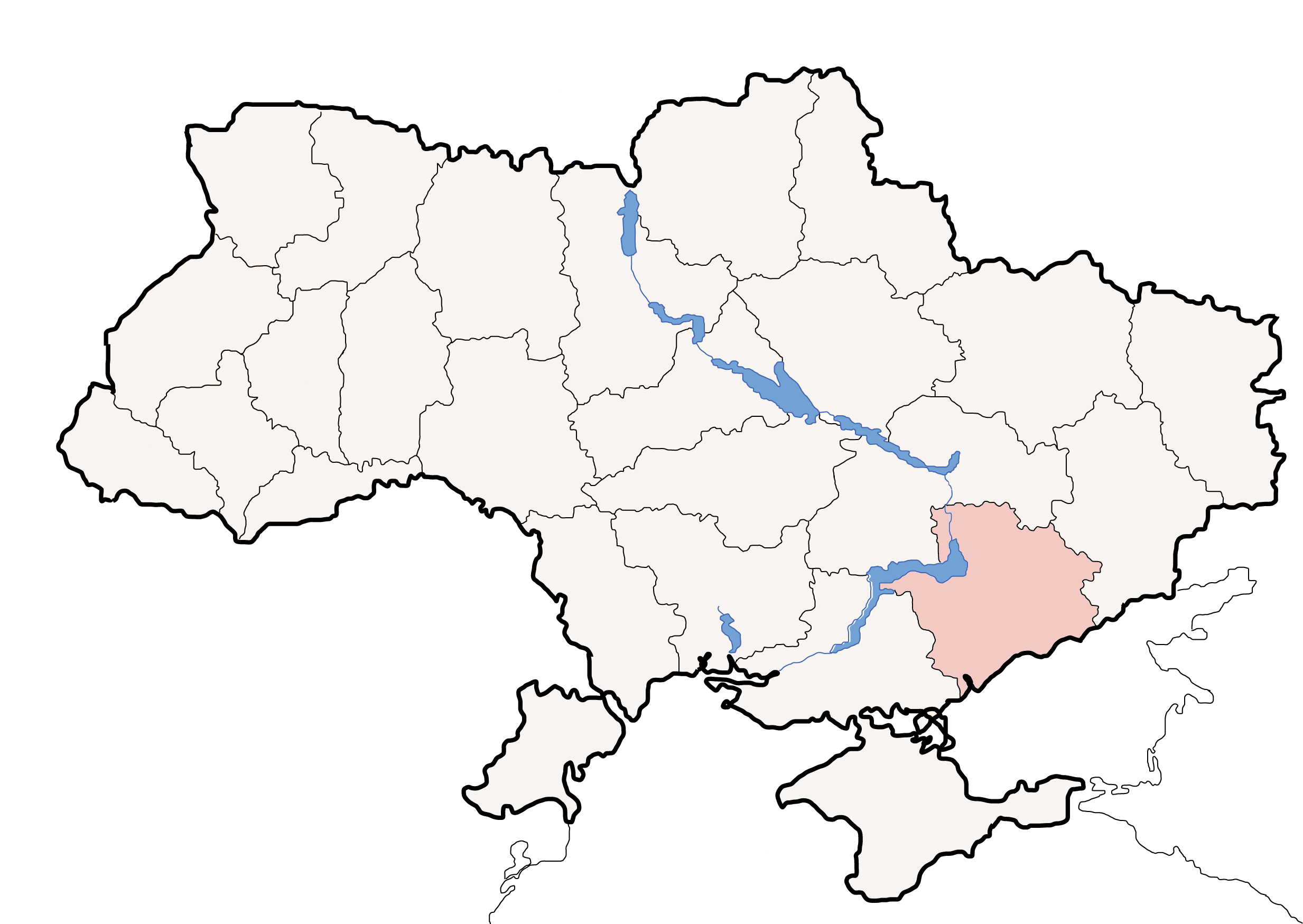 Political map of Ukraine, highlighting Zaporizhia Oblast